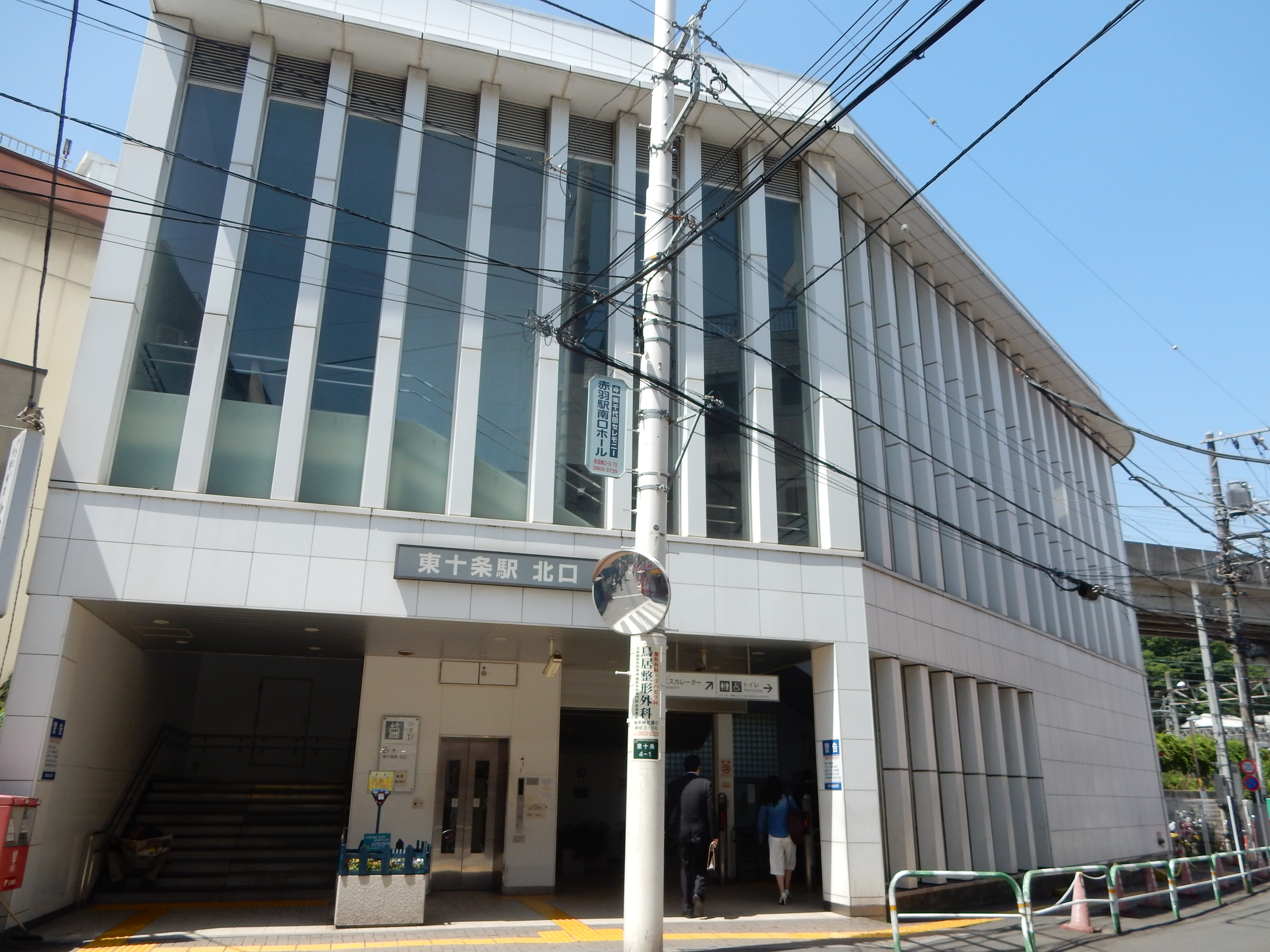 Higashi-Jūjō Station, located at 3-18-51 Higashi-Jūjō, Kita, Tokyo, Japan